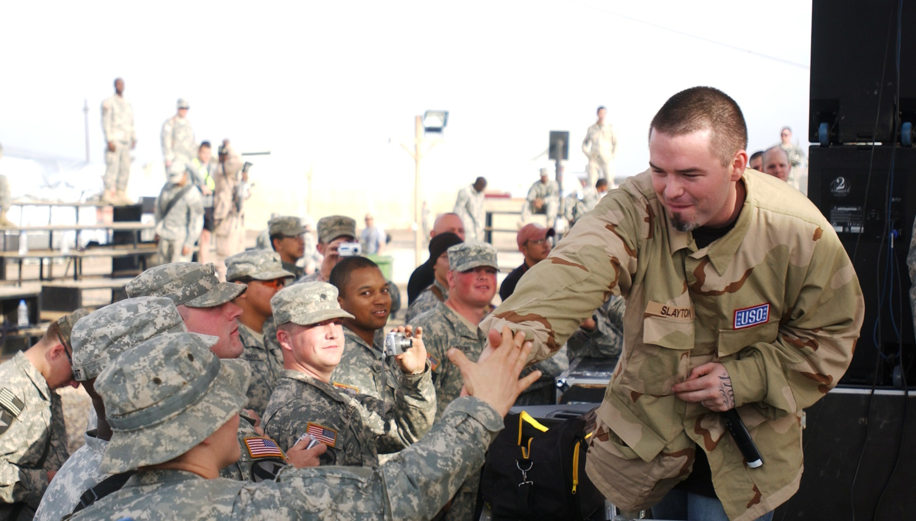 Rapper Paul Wall greets soldiers at the Moral, Welfare and Recreation facility on Camp Striker, Iraq Feb 23. Actor/comedian Jamie Kennedy was also on hand to perform for the troops. After the show, the entertainers sat for pictures and signed autographs.